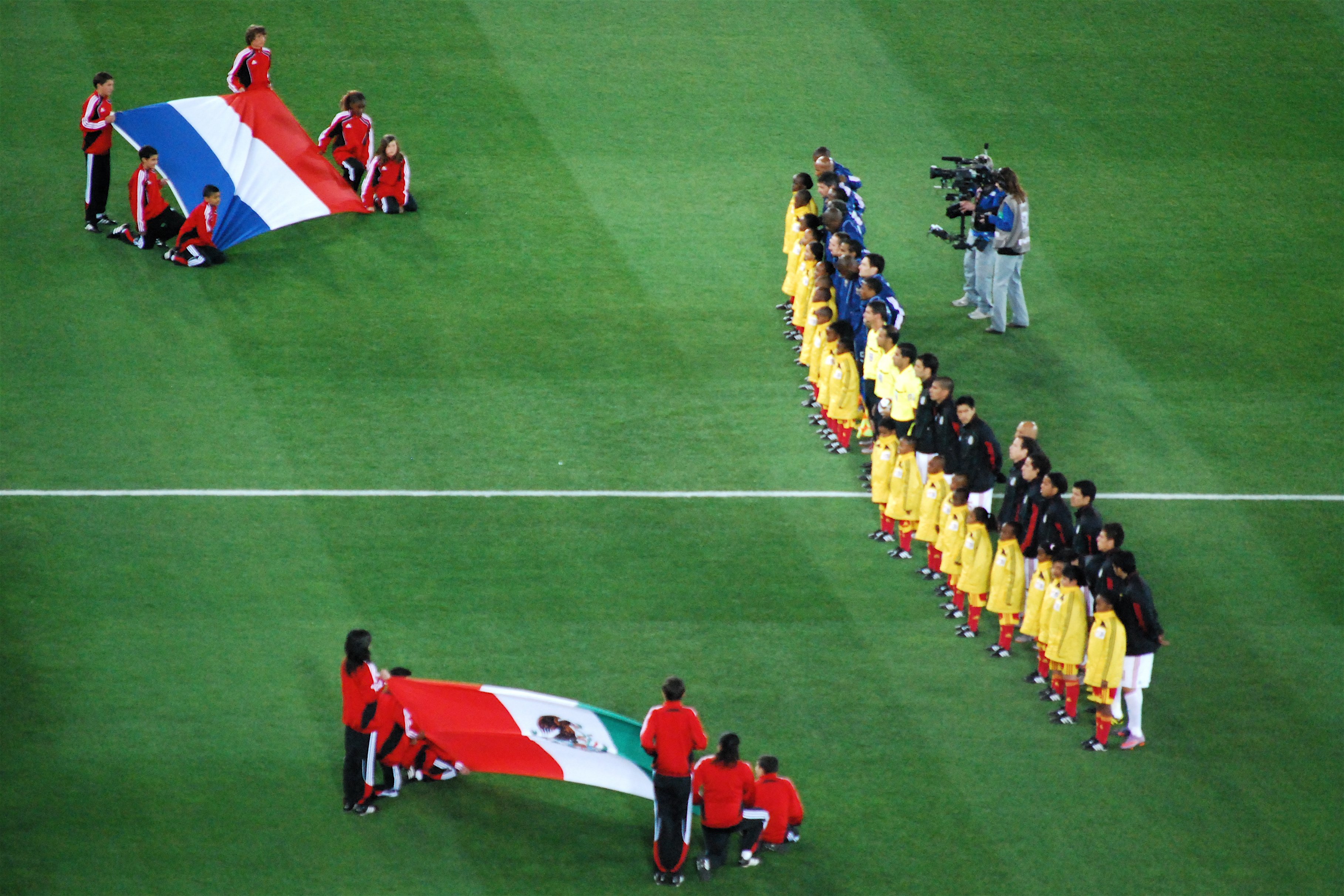 South Africa, city of Polokwane, Peter Mokaba Stadium - France VS MEXICO